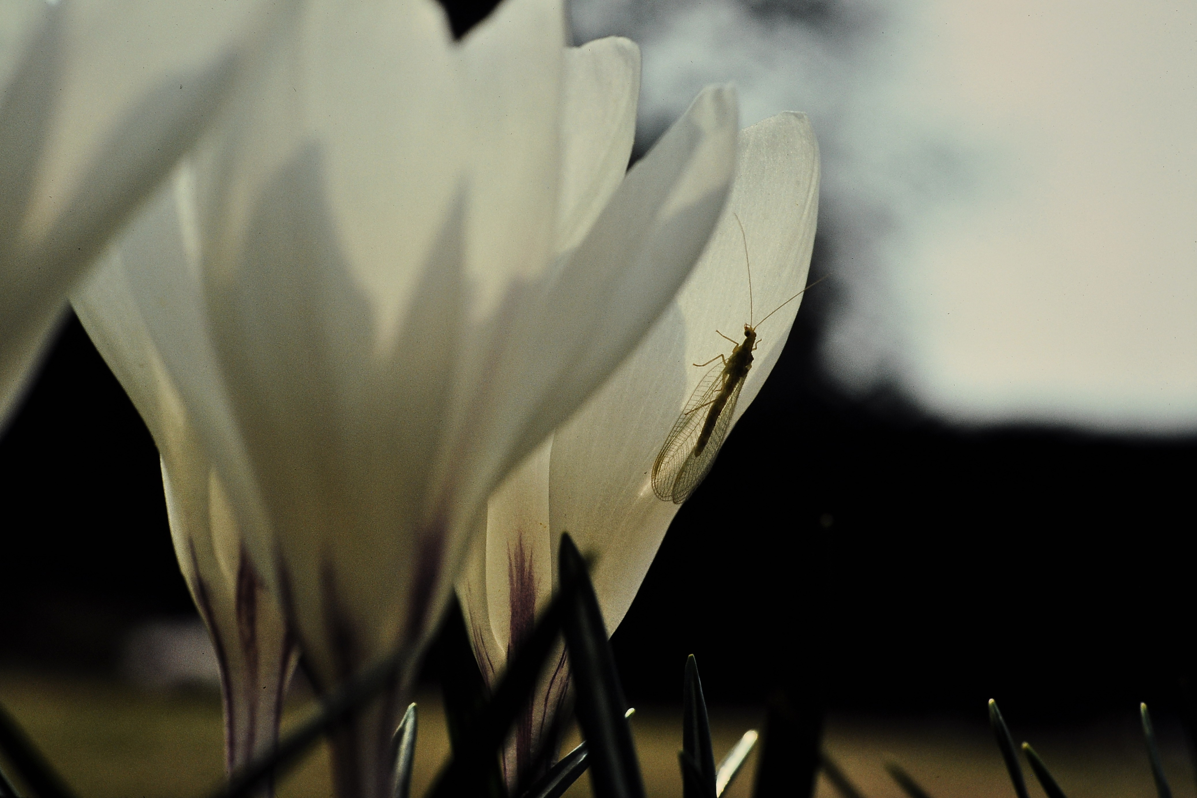 Common green lacewing on a crocus flower